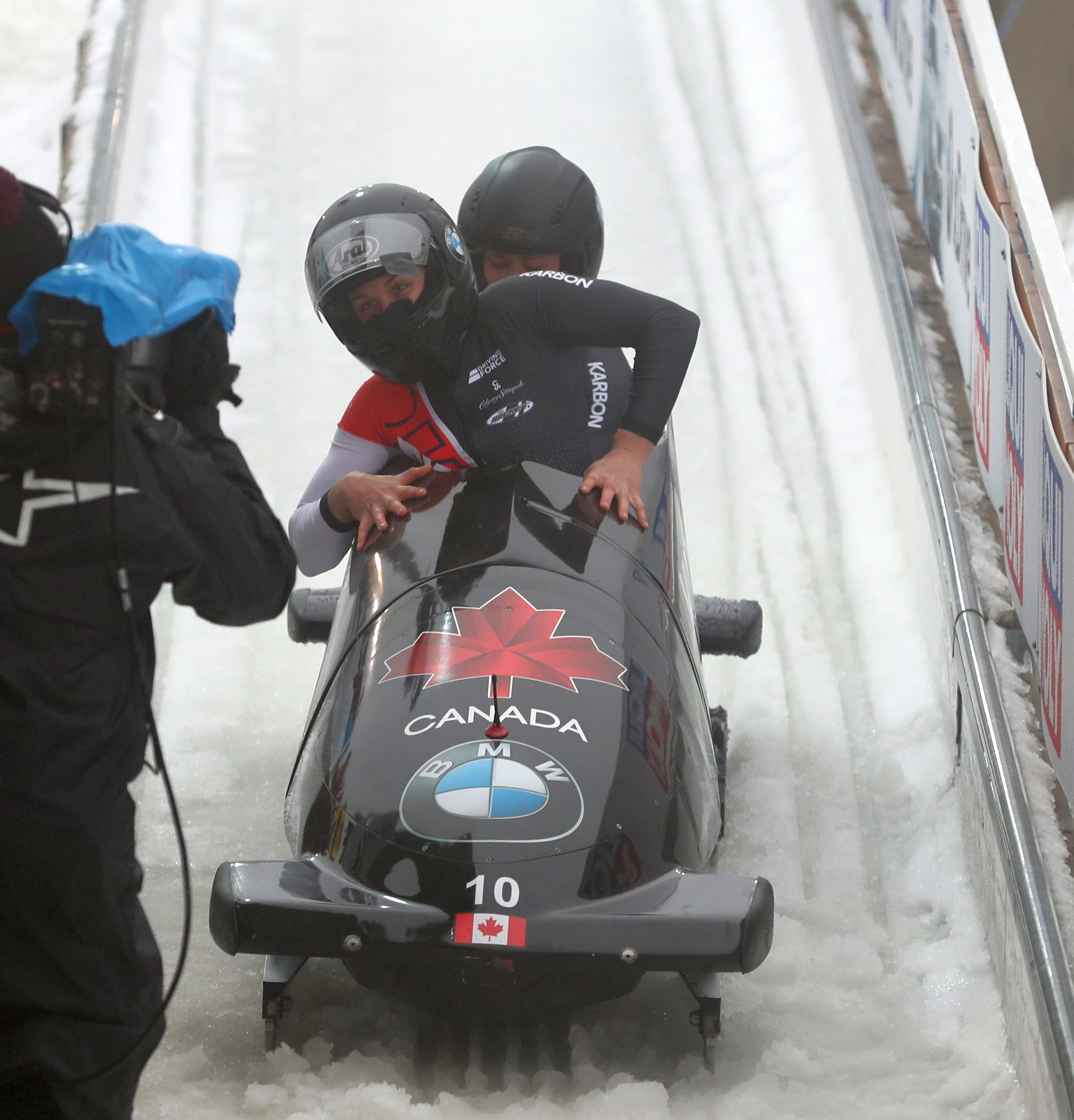 2-man Bobsleigh Women's World Cup race at the 2018/19 Bobsleigh World Cup in Altenberg